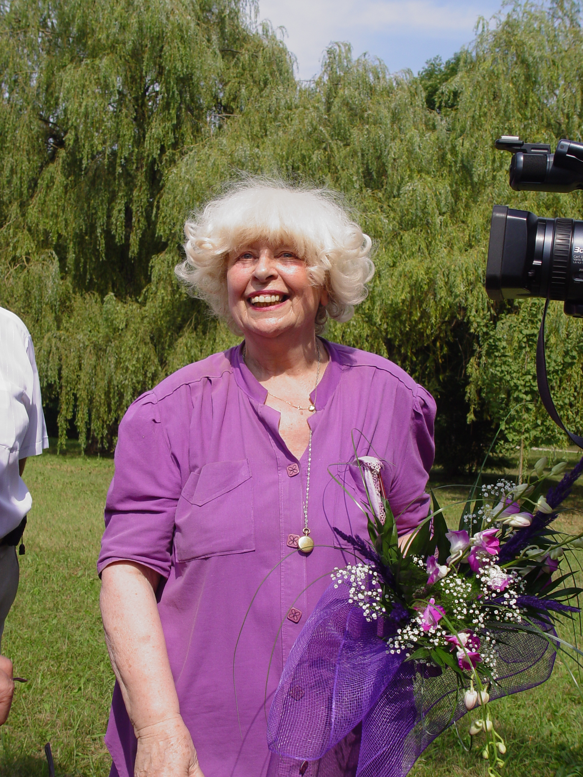 Barbara Wachowicz